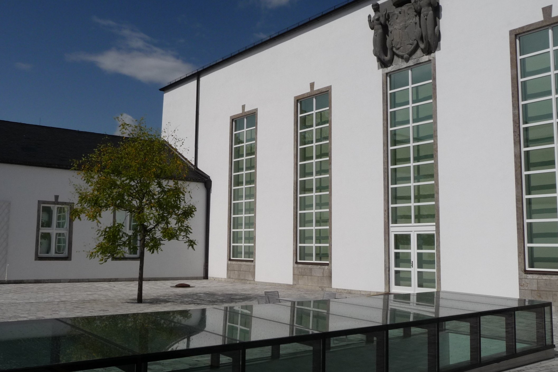 Kunsthalle Schweinfurt, former Ernst-Sachs-Bad, architect: Roderich Frick